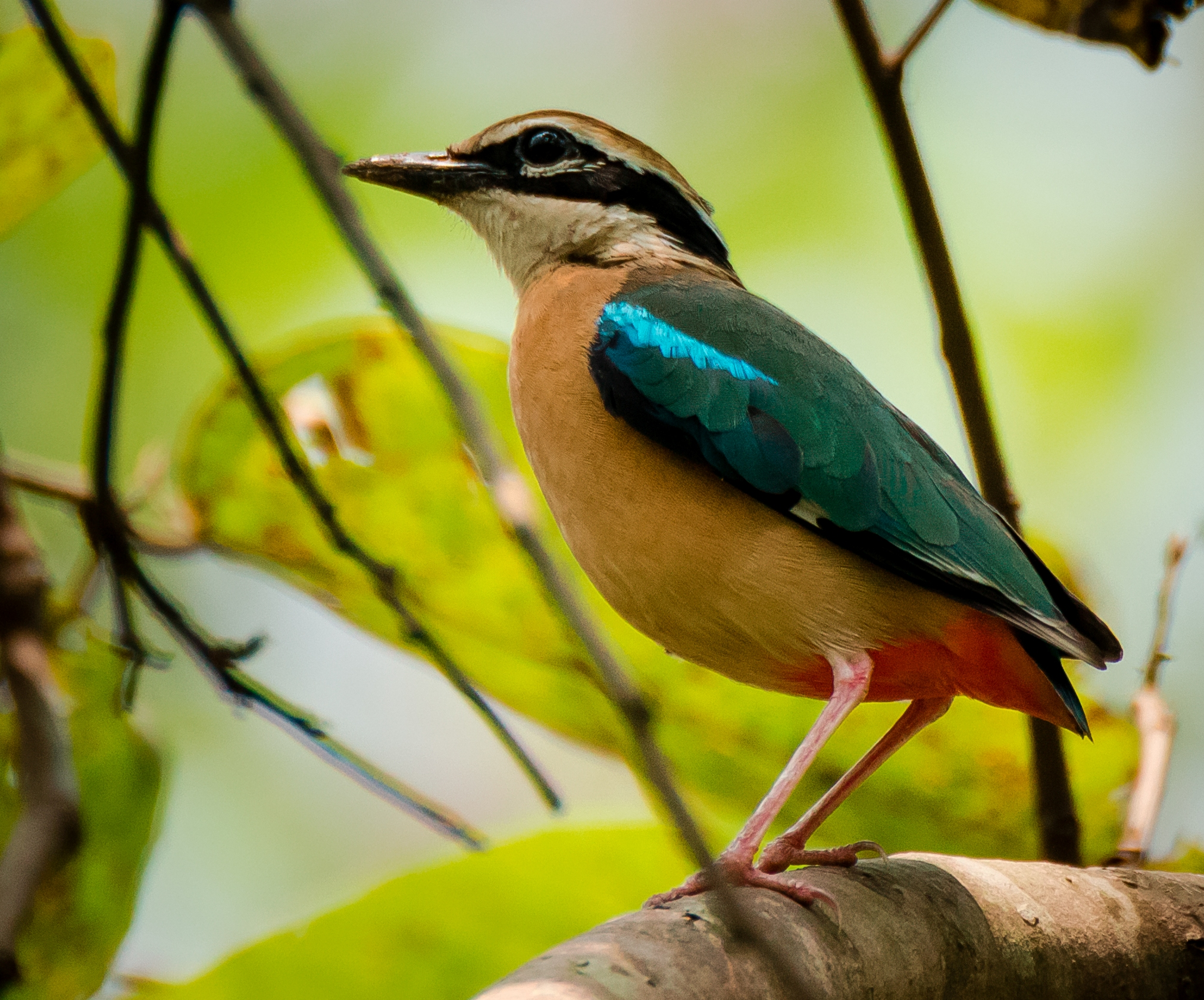 This is very rarely seen bird. But this one I saw in Kadigarh National Park, near Mymensingh, Bangladesh recently.